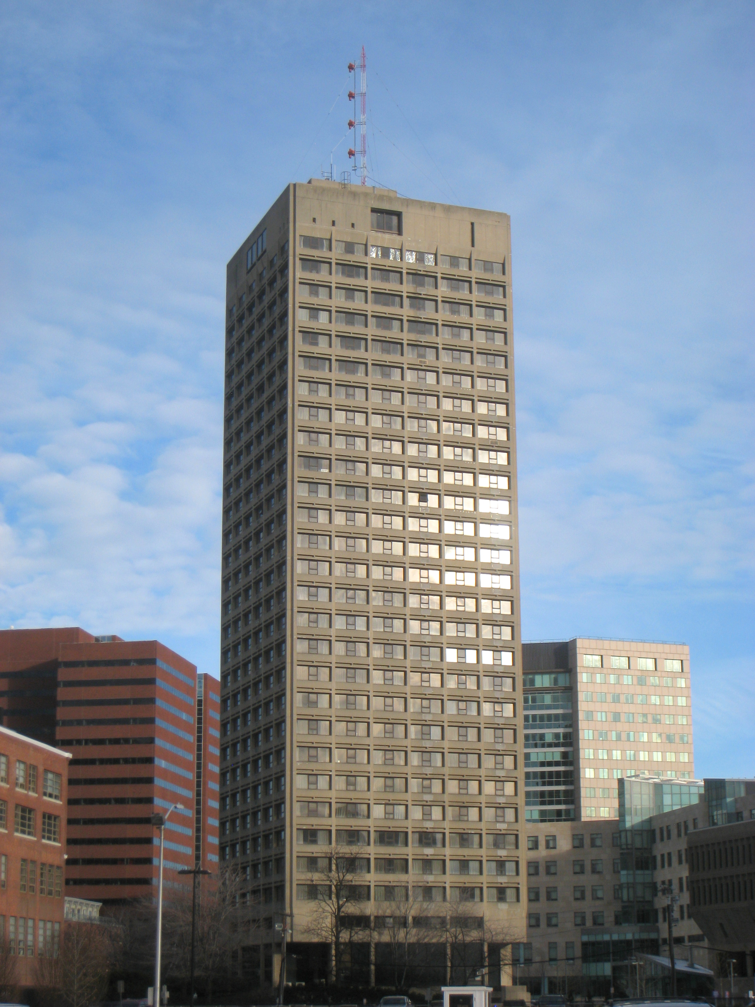 Massachusetts Institute of Technology, Cambridge, Massachusetts, USA. Eastgate. WMBR and W242AA are on the rooftop antenna mast.